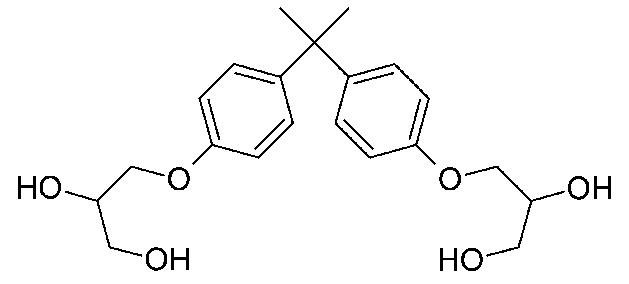 I made it using ACD/ChemSketch